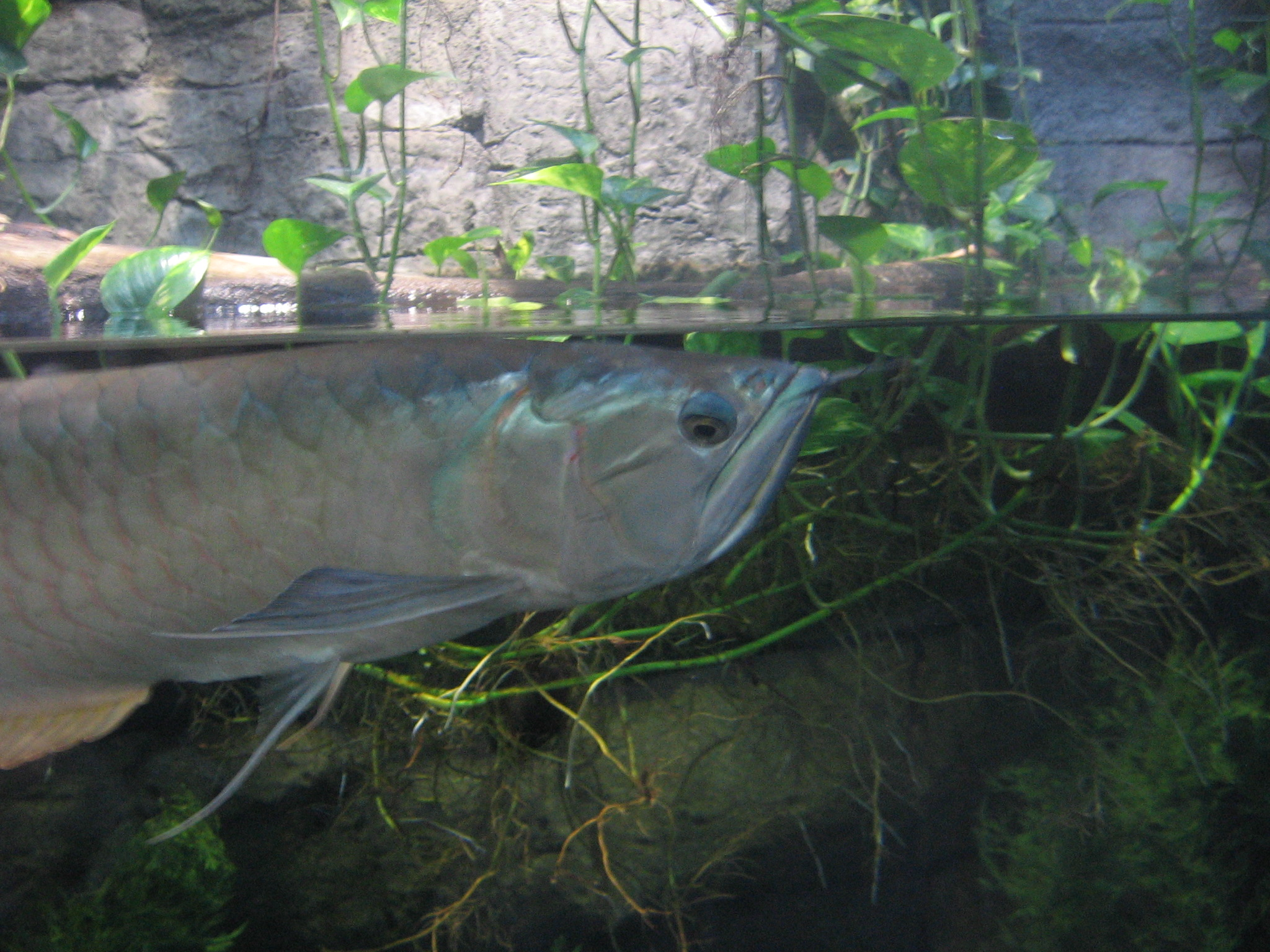 Silver arowana (Osteoglossum bicirrhosum)